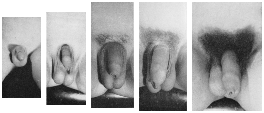 Development of an uncircumcised human penis (five Tanner stages).